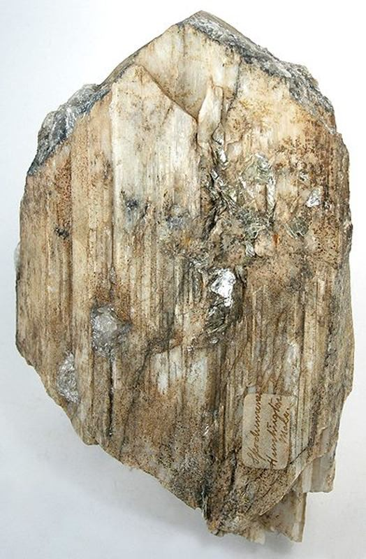 Spodumene Locality: Walnut Hill Pegmatite Prospect, Huntington, Hampshire County, Massachusetts, USA (Locality at ) Size: 14.2 x 9.2 x 3.0 cm. A large, 660-gram single, sharply terminated crystal of spodumene from this classic old locality circa mid-1800s. They were considered very important at the time, and these crystals were considered highly important and sold or traded into all major museums. Owning one of these would be a goal to assemble any major collection of the time, of important US minerals. This location was first documented by Edward Hitchcock in 1833 (Report on the Geology, Mineralogy, Botany and Zoology of Massachusetts), and the first location to yield crystallography on the species (1879). The quarry was last operated by B. K Emerson of Amherst College, and Frank Nason (Nasonite) operated the location in 1885. This is when the majority of the old specimens were recovered. For the size of this crystal, this is really good. Ex. Ken Hollman Collection. Thanks to Jim Chenard for this footnote: A funny note on this area was with regards to the early Professor Emerson, who wrote the Mineralogical Lexicon of Hampshire, Hampden Counties in Mass. His journal well documents the Walnut Hill location, and always used taverns as landmarks. His writing got worse during the day, and he would frequently come back to Amherst on foot, since he would forget where his horse was. This is an old location.